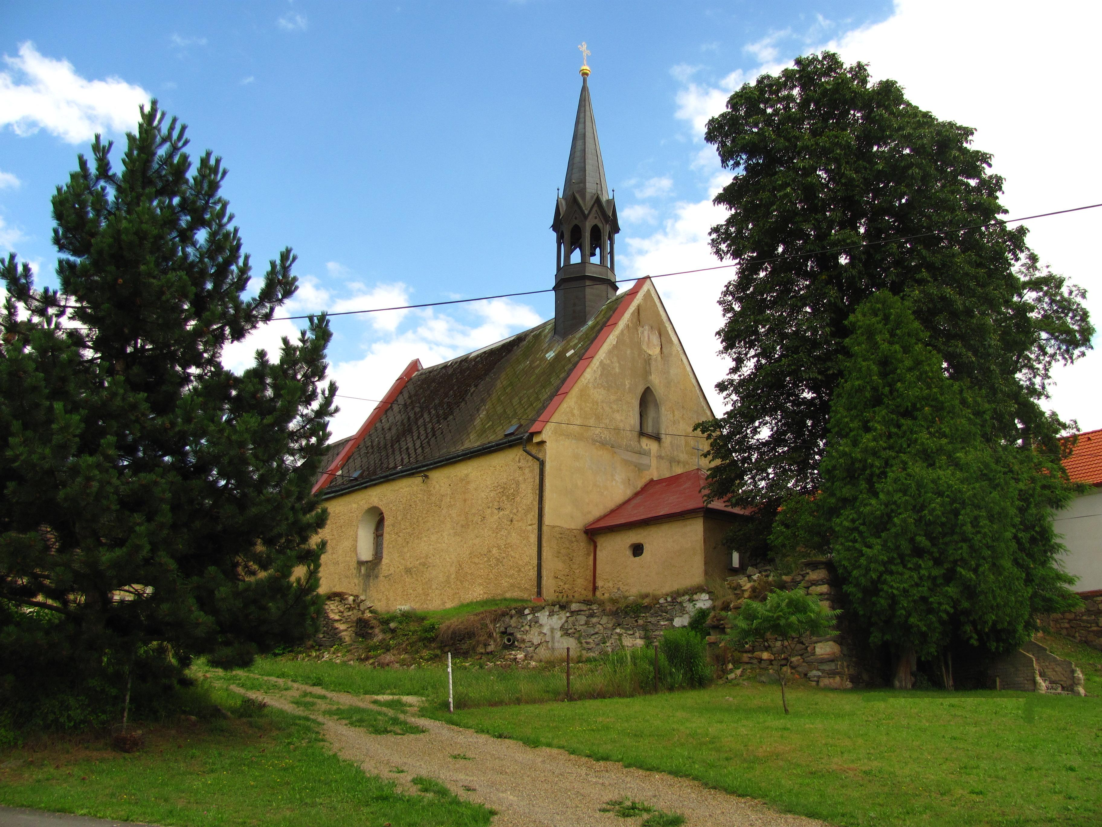 St. Martin's Church in Racov, District of Tachov, Czech Republic. The Church was built in 1369.